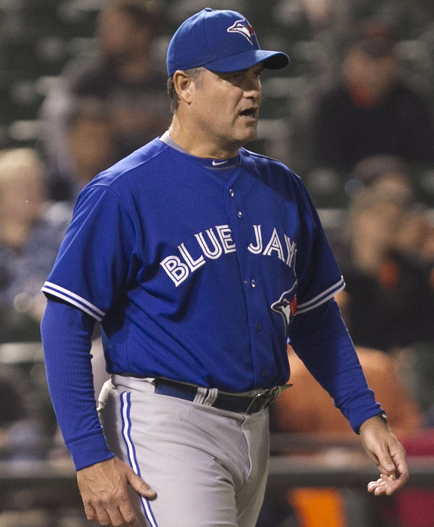 Toronto Blue Jays manager John Farrell - Blue Jays at Orioles April 26, 2012